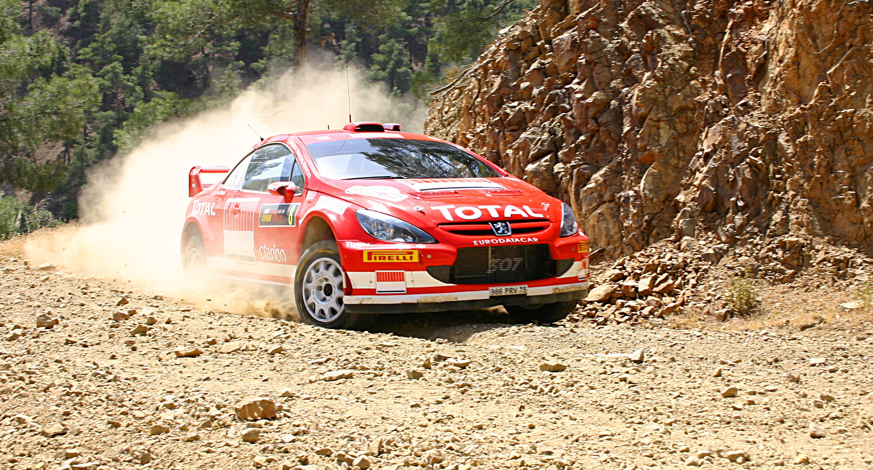 Markko Märtin driving his Peugeot 307 WRC at the 2005 Cyprus Rally.